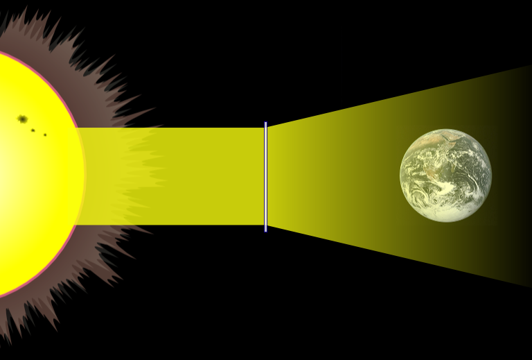 Principle of a space lens. The basic function of a space lens to mitigate global warming. In reality, a 1000 kilometre diameter lens is enough, and, as a Frensel lens only a few millimeters thick, much smaller than simplified in image.